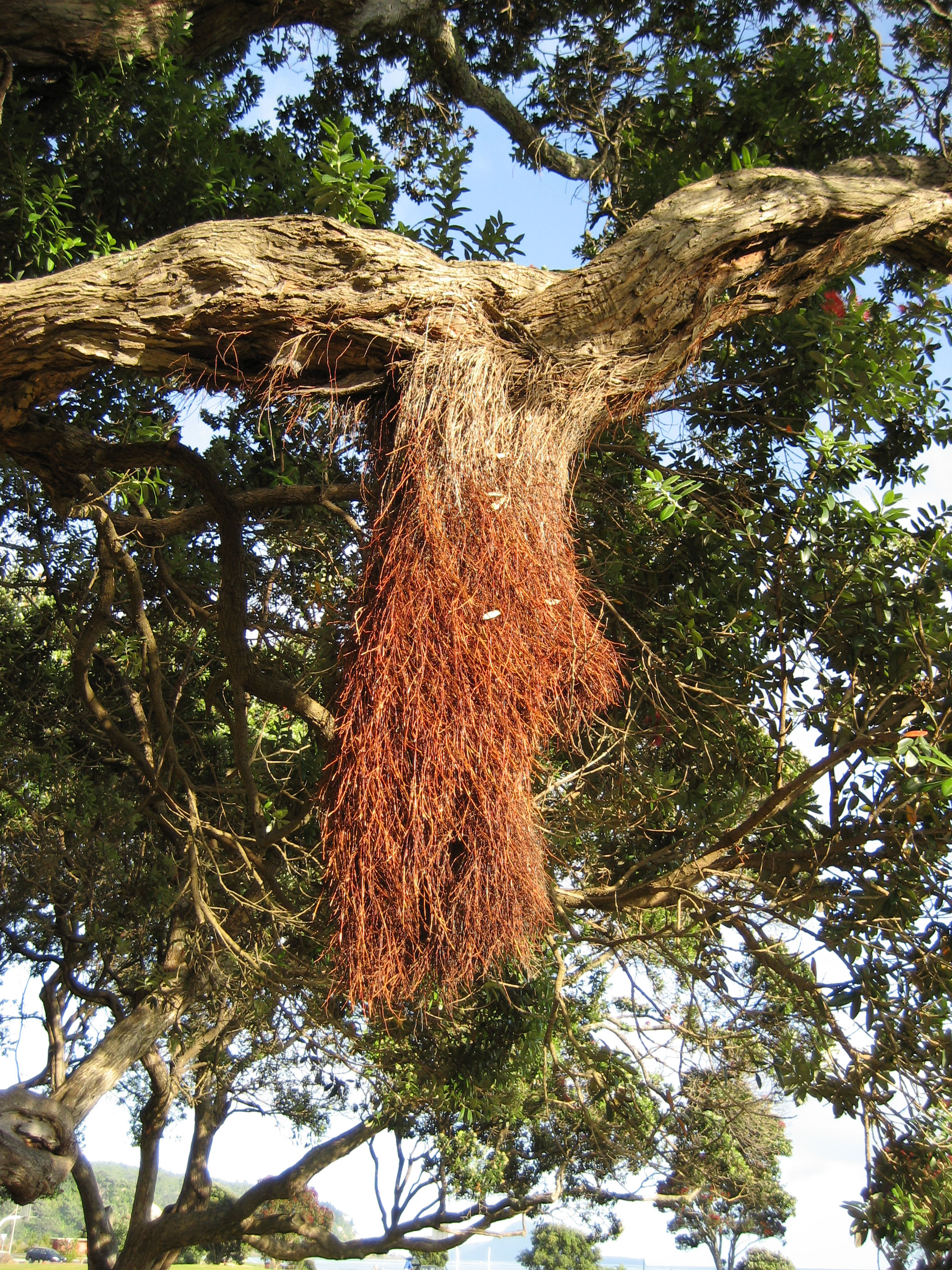 Branch of Pōhutukawa (Metrosideros excelsa), Ōhope, New Zealand, showing fibrous mass of aerial roots.